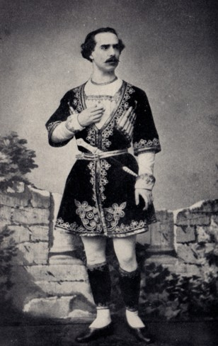 Photo by unknown of Louis Merante in La Source, Paris 1866.